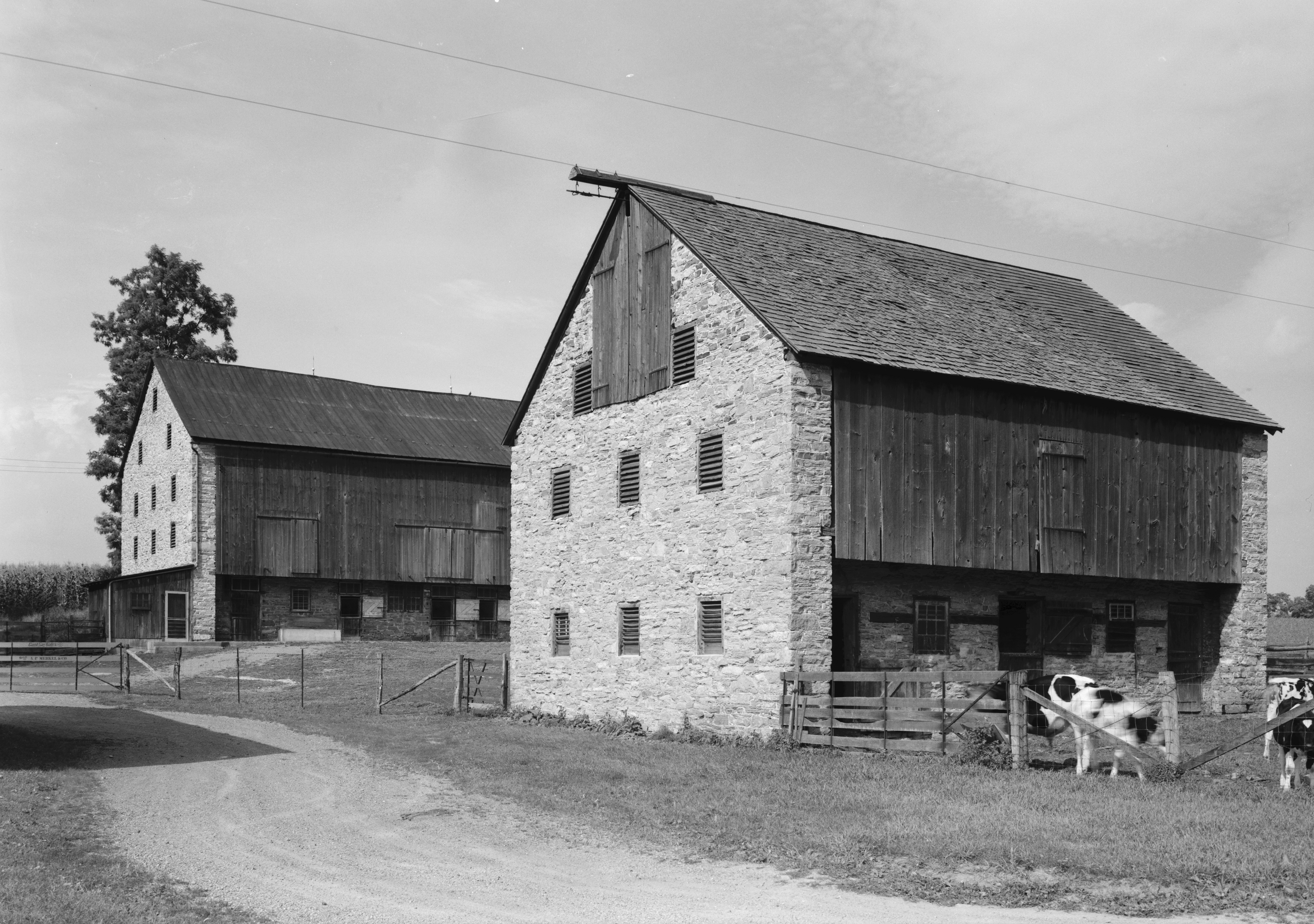 Kaufman Barns, State Route 662 vicinity (Oley Township), Oley vicinity, Berks, PA. Entire Township is listed as a historic district on the NRHP